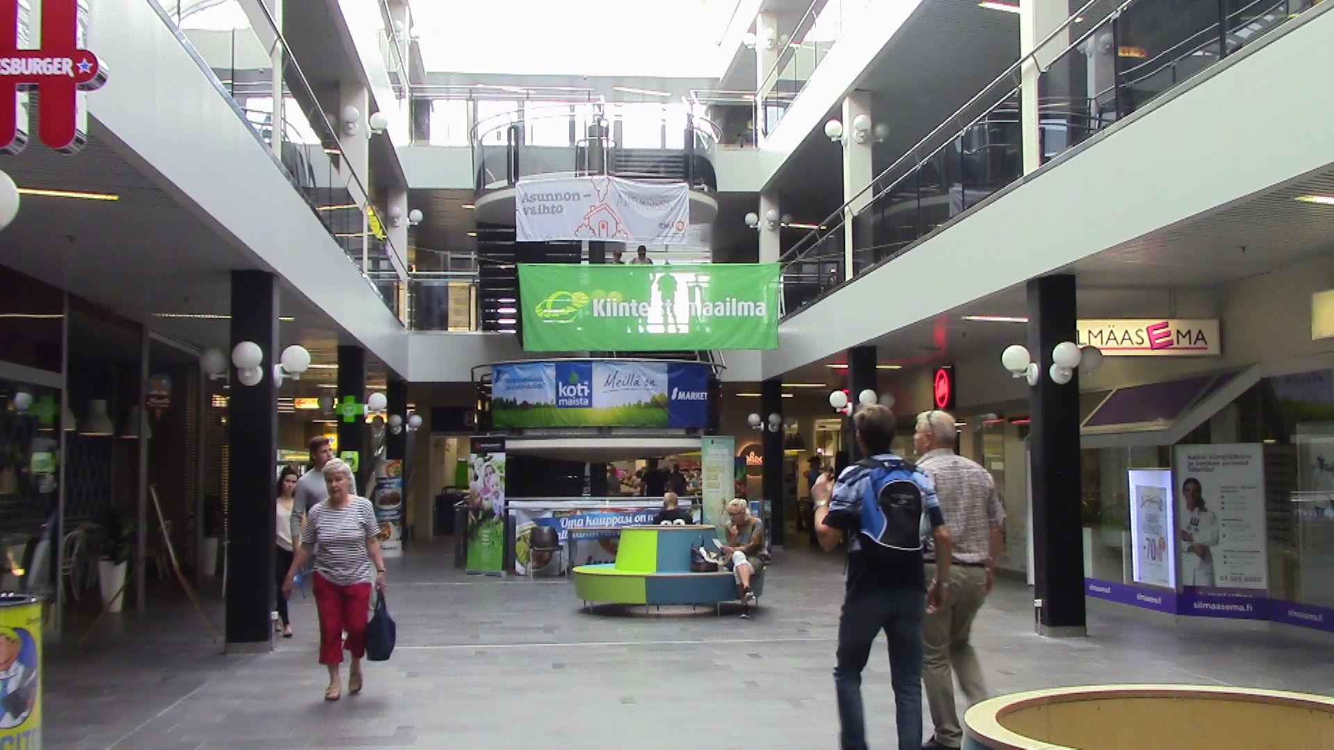 The main square of Koskikara shopping center in Valkeakoski.